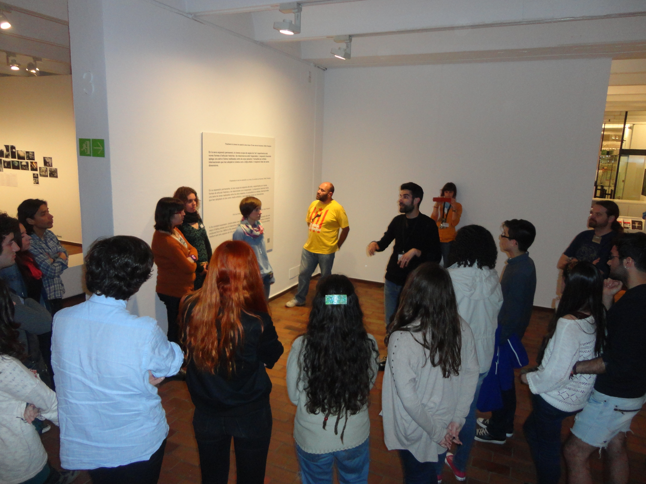 Edit-a-thon at Fundació Miró, April 12-13, 2013 (35 hours long).